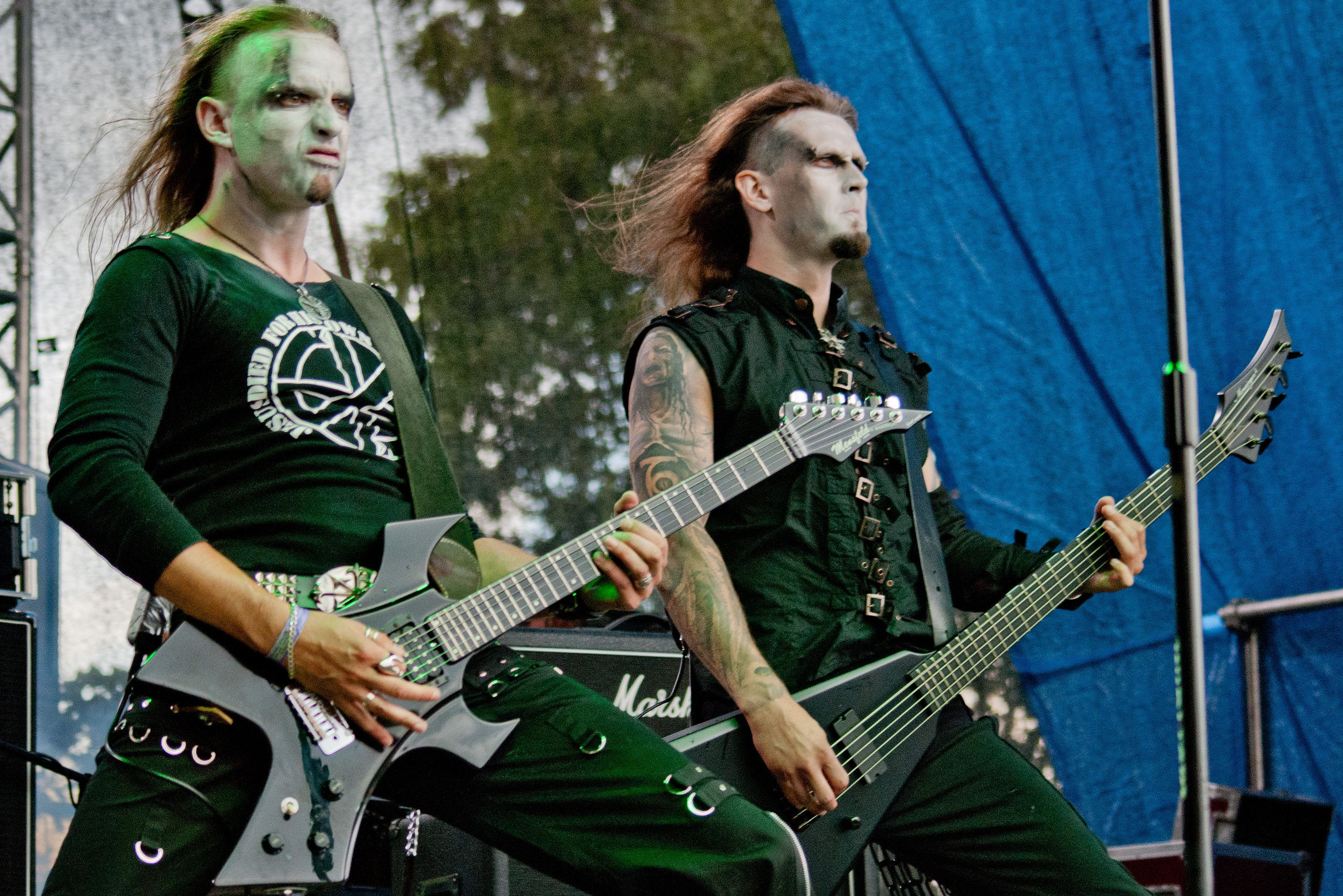 This photo was made in cooperation with CASTLE PARTY PRODUCTIONS in Bolków (webpage) Devilish Impression podczas Castle Party 2012